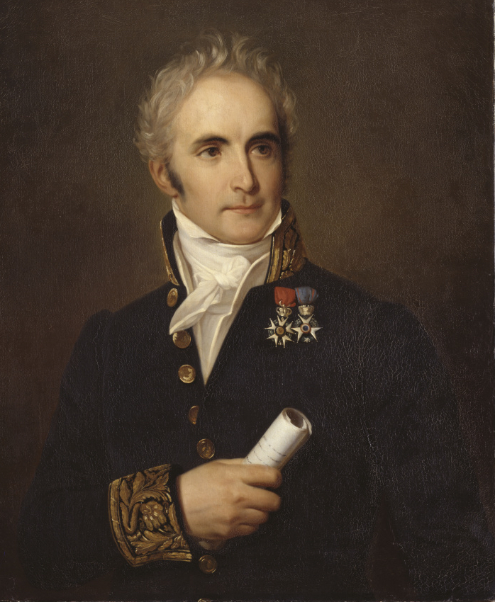 Casimir Pierre Perier (1777-1832), french statesman